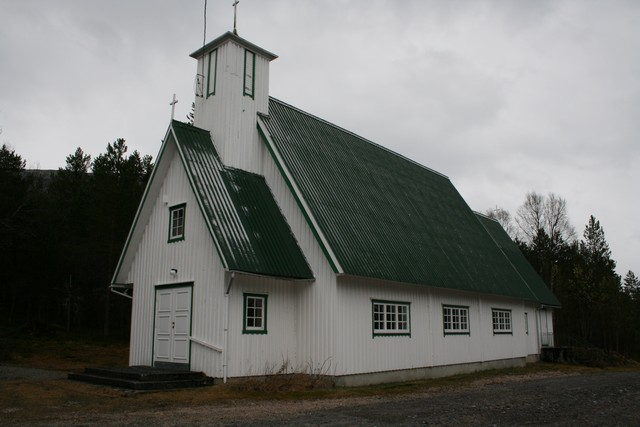 Tømmerneset church, on the East bank of lake Rotvatnet